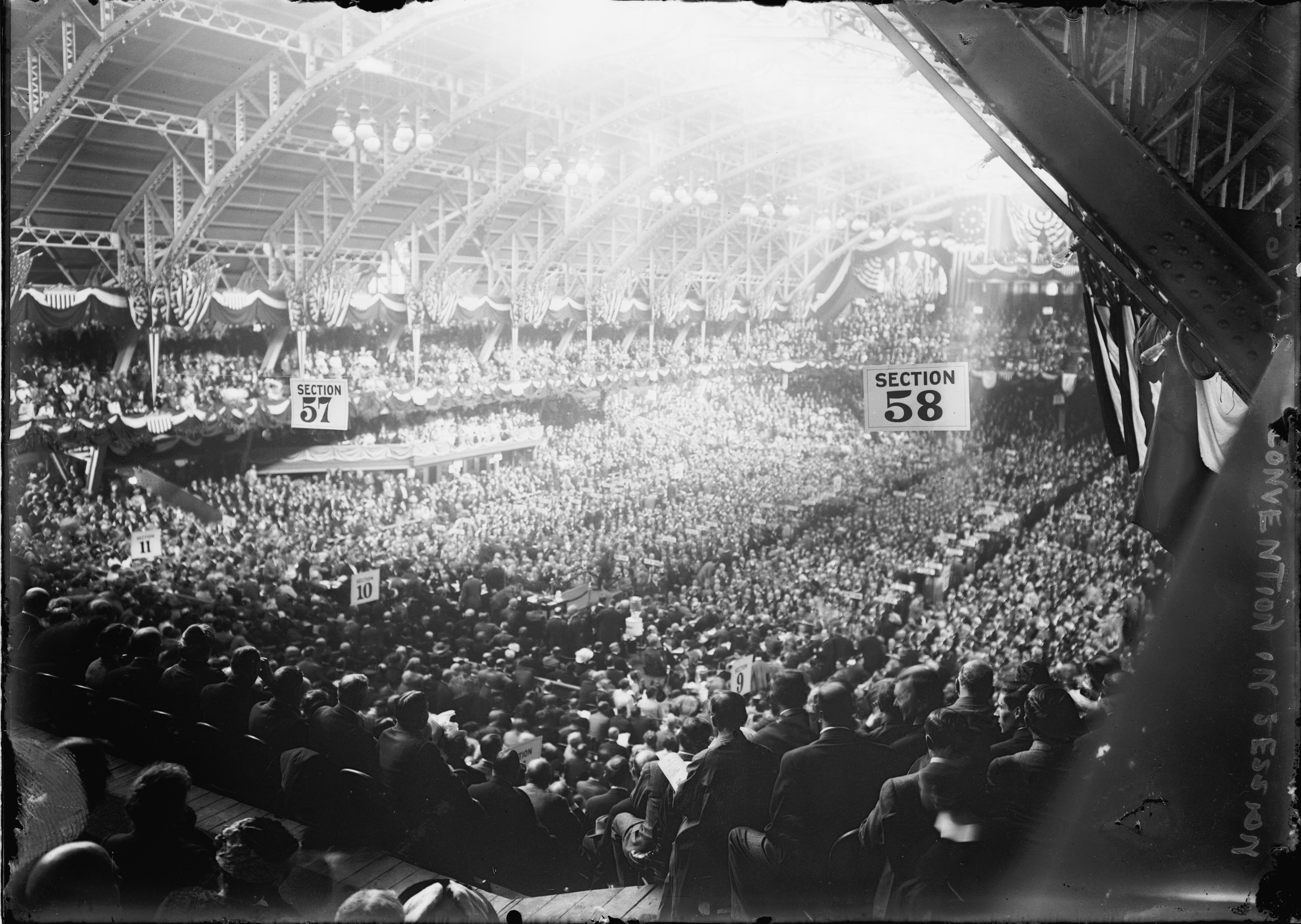 Photo taken at the 1912 Republican National Convention held at the Chicago Coliseum, Chicago, Illinois, June 18-22.[1]